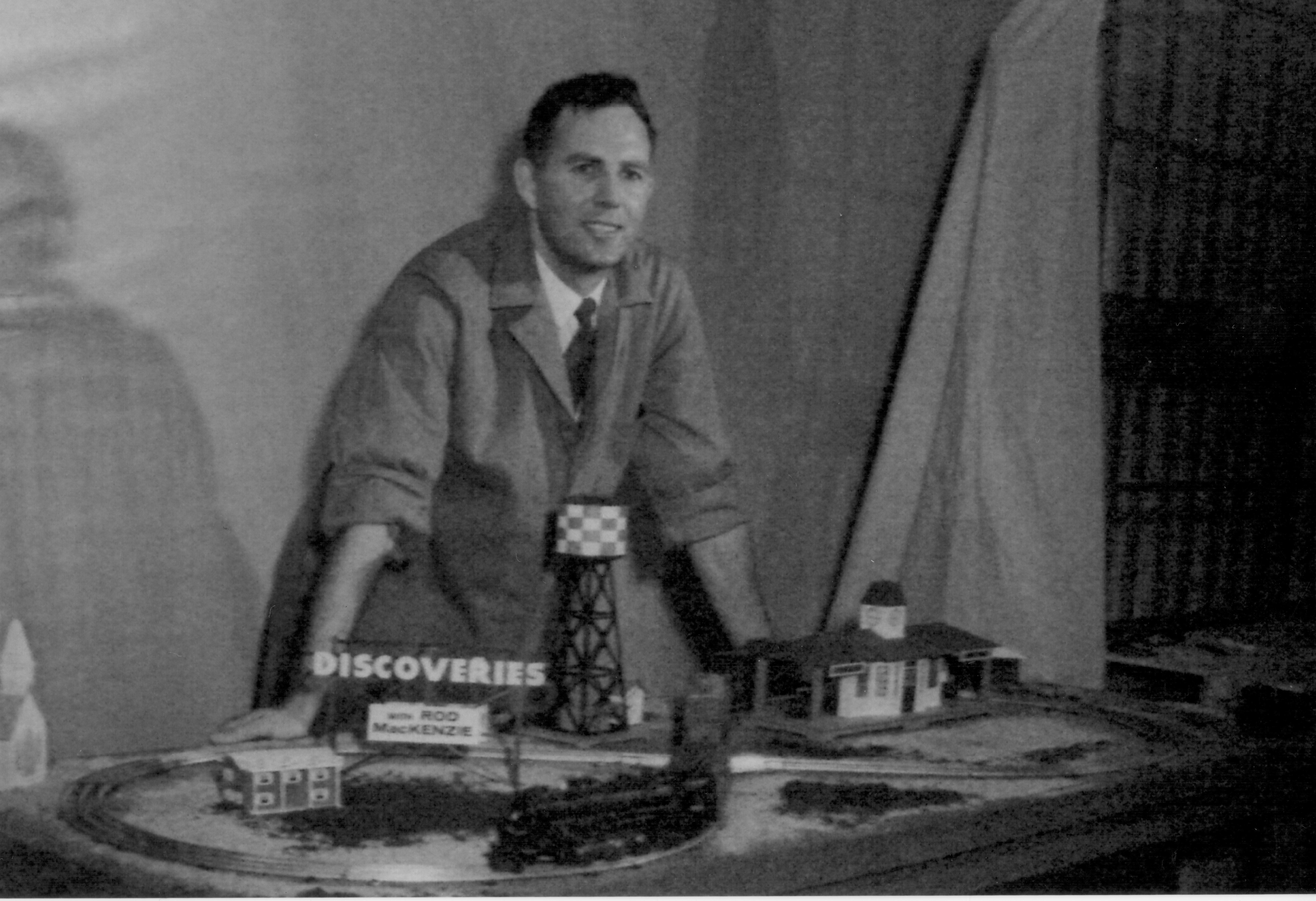 Photo of Rod Mackenzie on Discoveries TV show